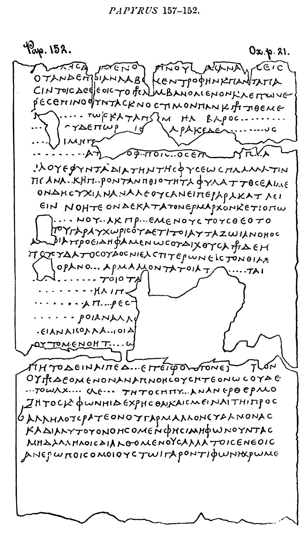 Copy of Herculanean Rolls, Papyrus 157-152